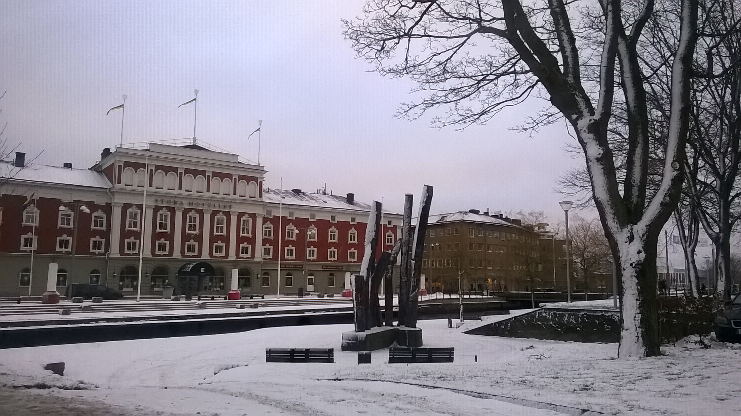 Jönköping Grand Hotel, Sweden 30 December 2014